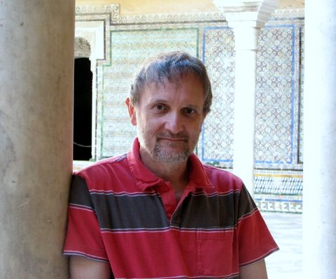 Professor Michael J C Gordon.